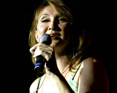 Singer Pam Tillis performs a free concert at Holloman Air Force Base, N.M., on July 18. The concert is part of the Spirit of America Tour sponsored by The Robert and Nina Rosenthal Foundation